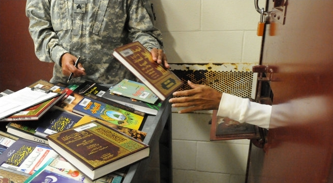 captive browses books at Camp 5 Guantanamo.jpg